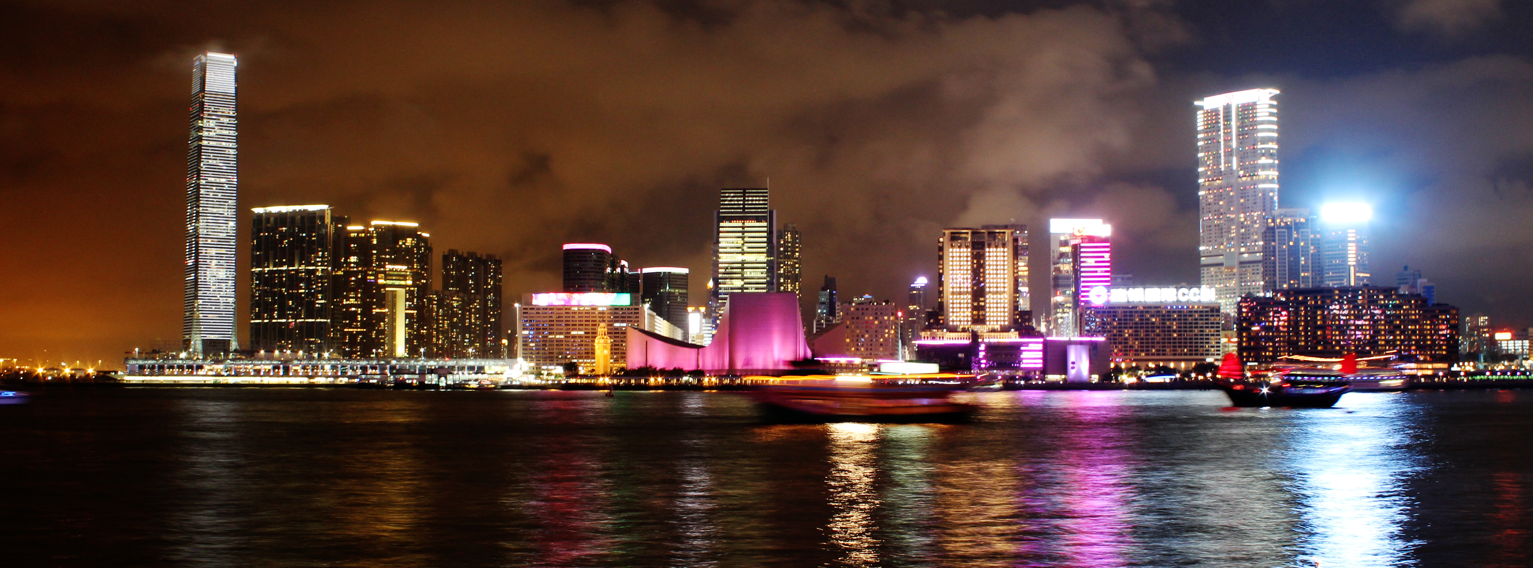 Kowloon side panorama taken from Hong Kong Island.